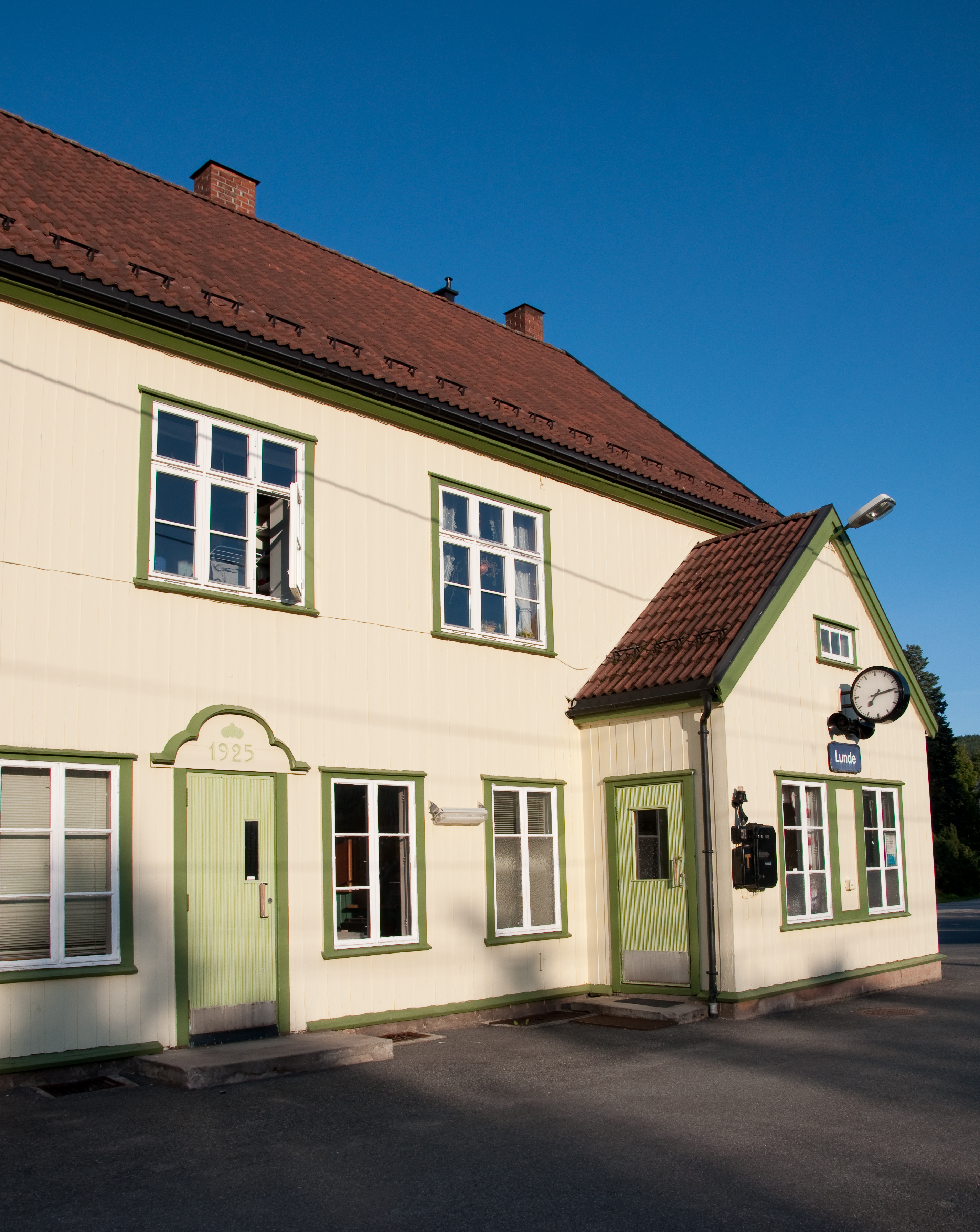 Lunde Railway Station, Telemark, Norway